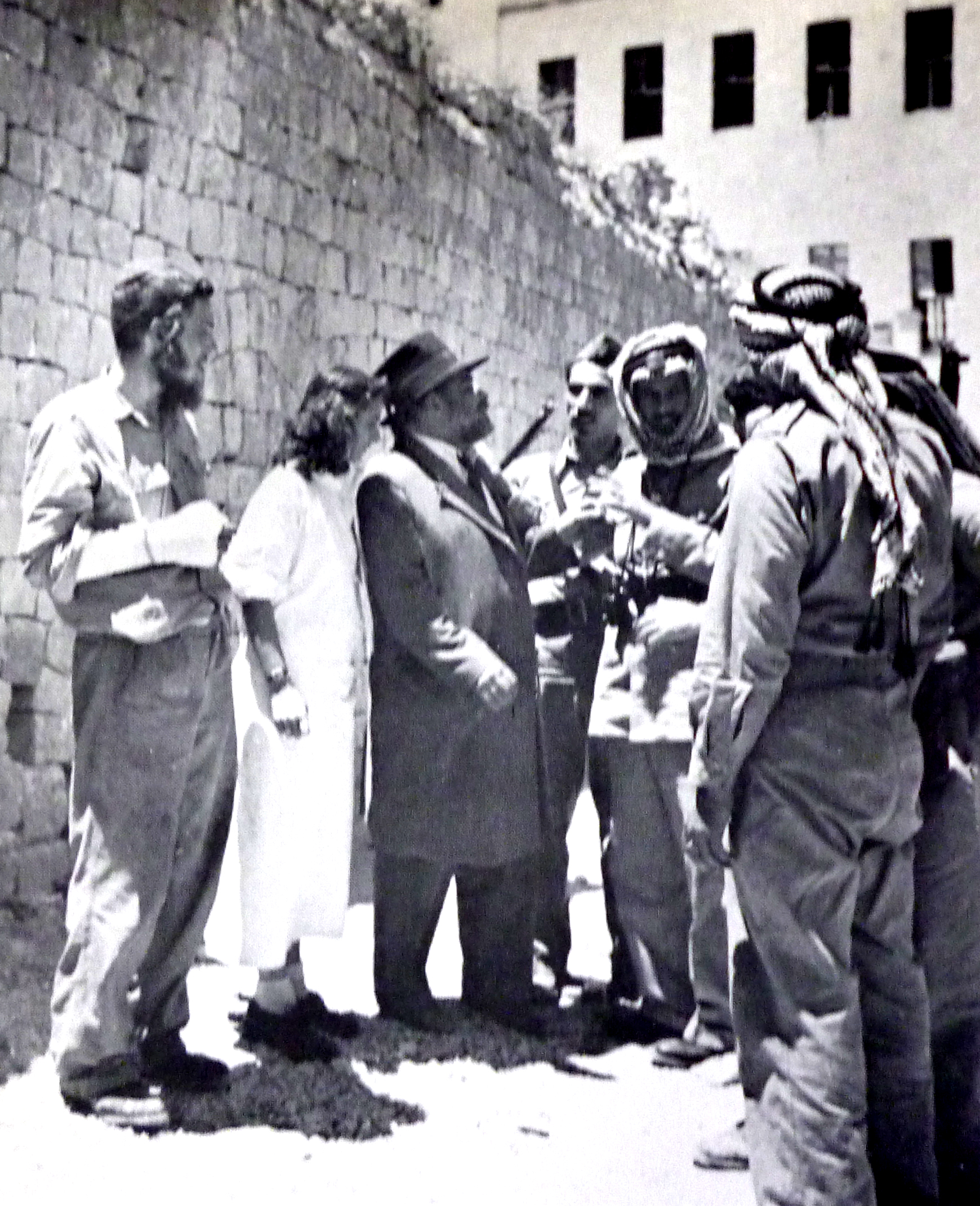 Mordechai Weingarten with his daughter Yehudit negotiating surrender of Jewish Quarter, 28 May 1948.